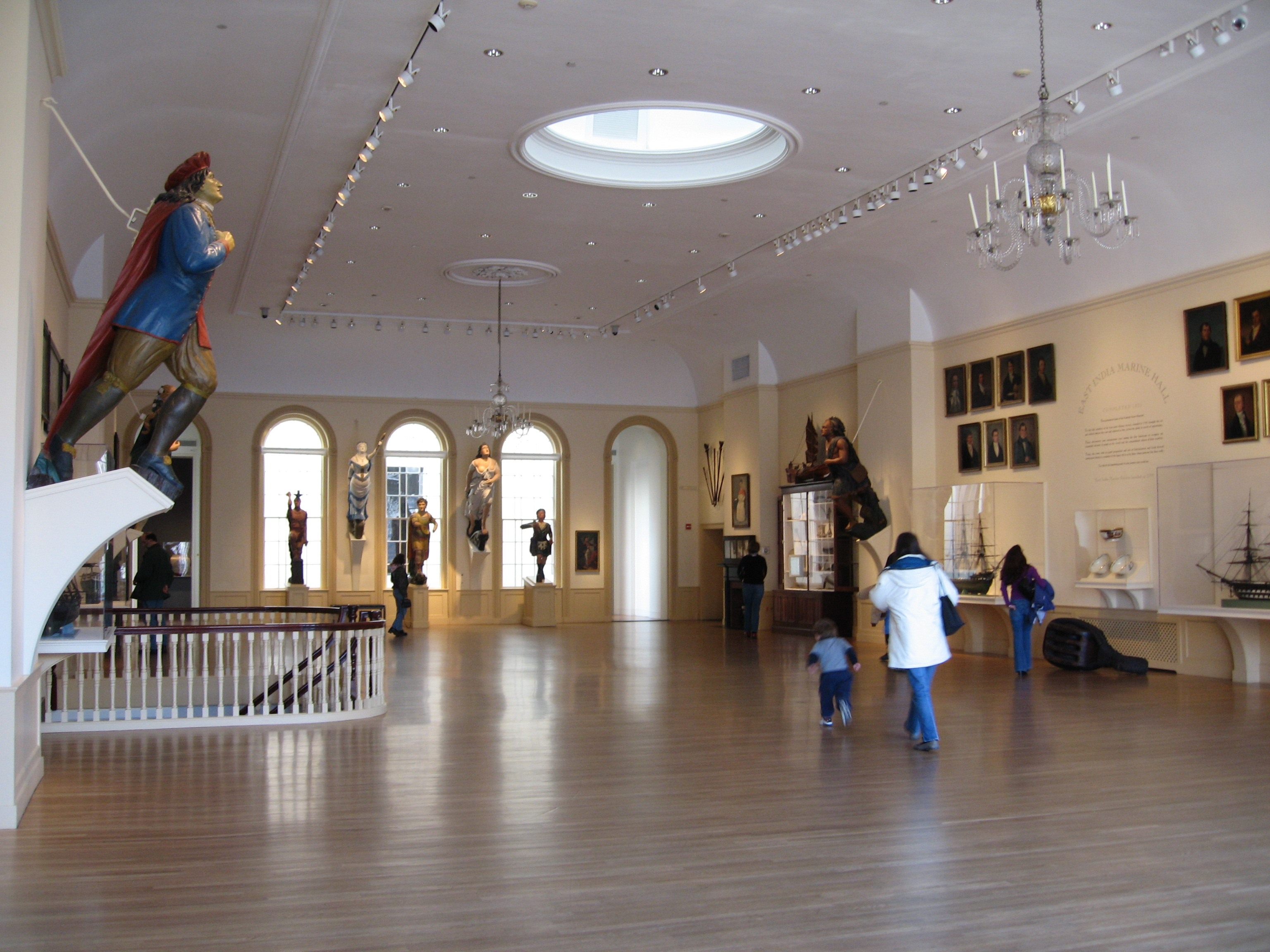 View of the museum interior of the East India Marine Hall, Peabody Essex Museum, Salem Massachusetts.